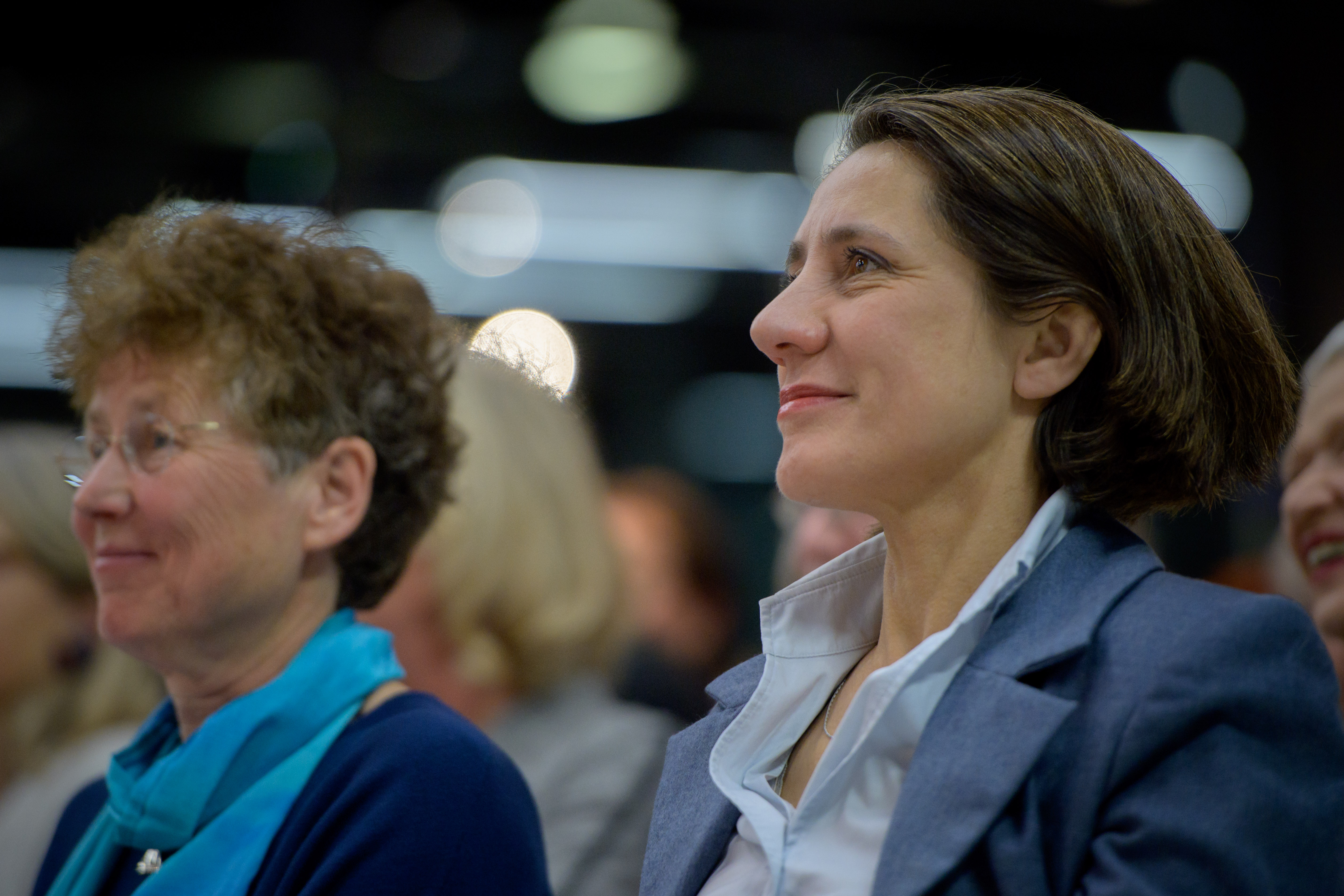 Foto: Stephan Röhl